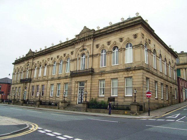 The Lyceum and Science & Art Building., near to Oldham, Great Britain. The Lyceum the left side of the building was built in 1856 containing library newsroom,and lecture rooms.The Science & Art was built in 1881 and among other things started instrumental music lessons and eventually became the Oldham Music Centre.